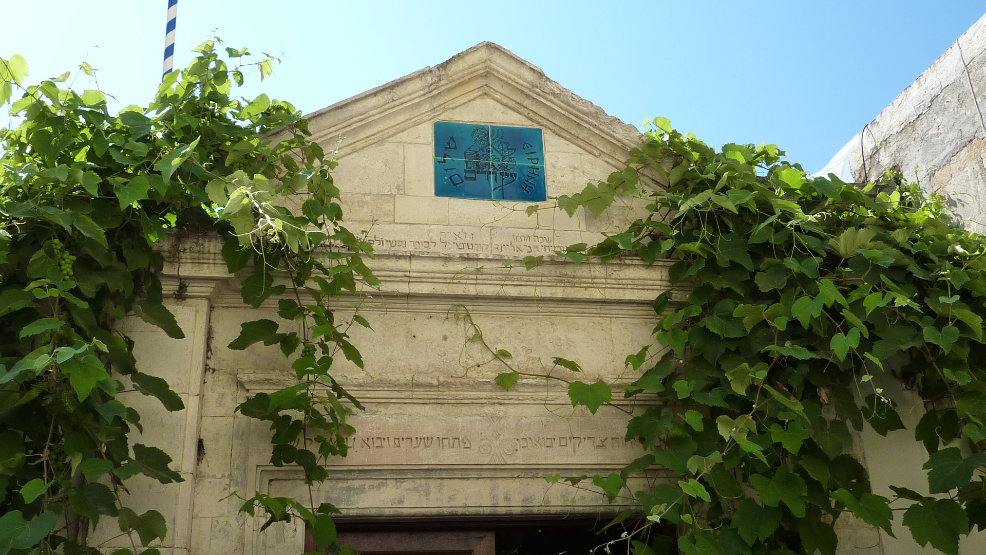 Above the door of the Etz-Hayyim-Synagogue in Chania